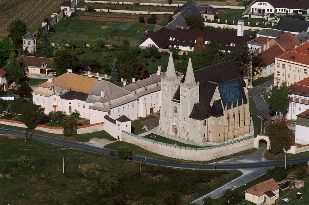 Spišské Podhradie - Slovakia - Europe